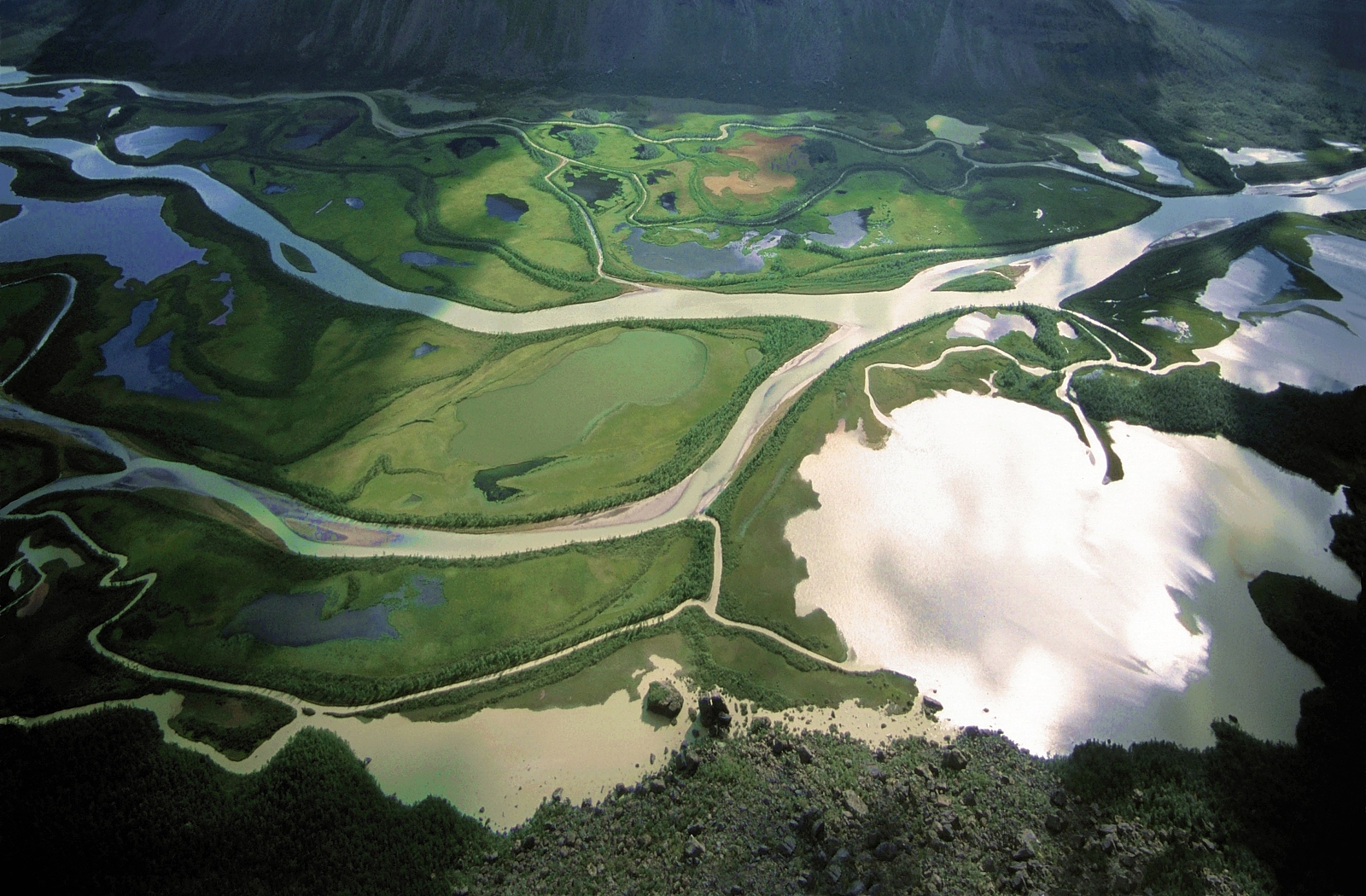 The delta of Rapadalen, Lappland (Sweden), Sareks Nationalpark. View from Skierffe. Photographer: Mg-k. Source: M. Klüber Fotografie